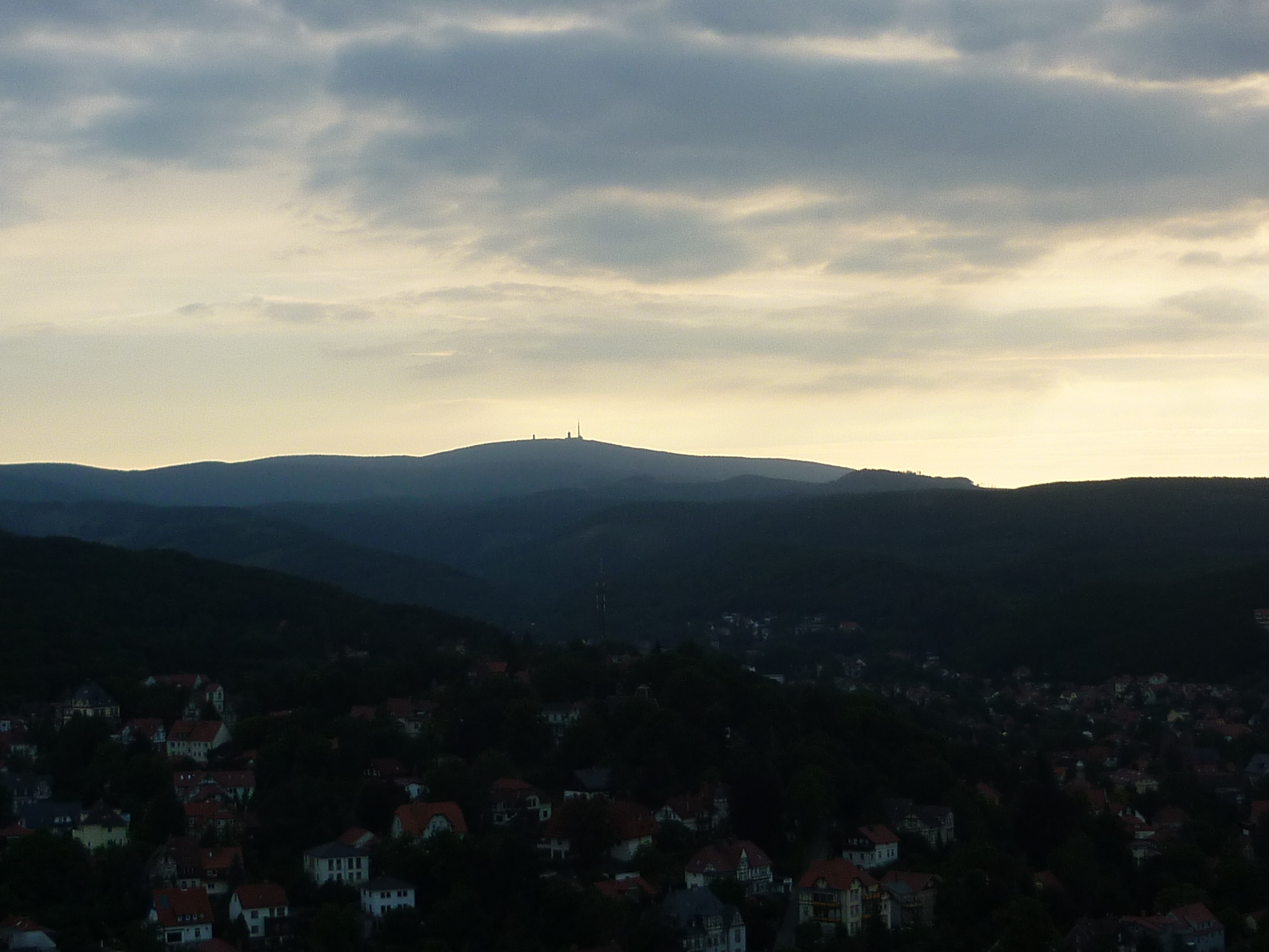 Brocken, viewd from Wernigerode Castle